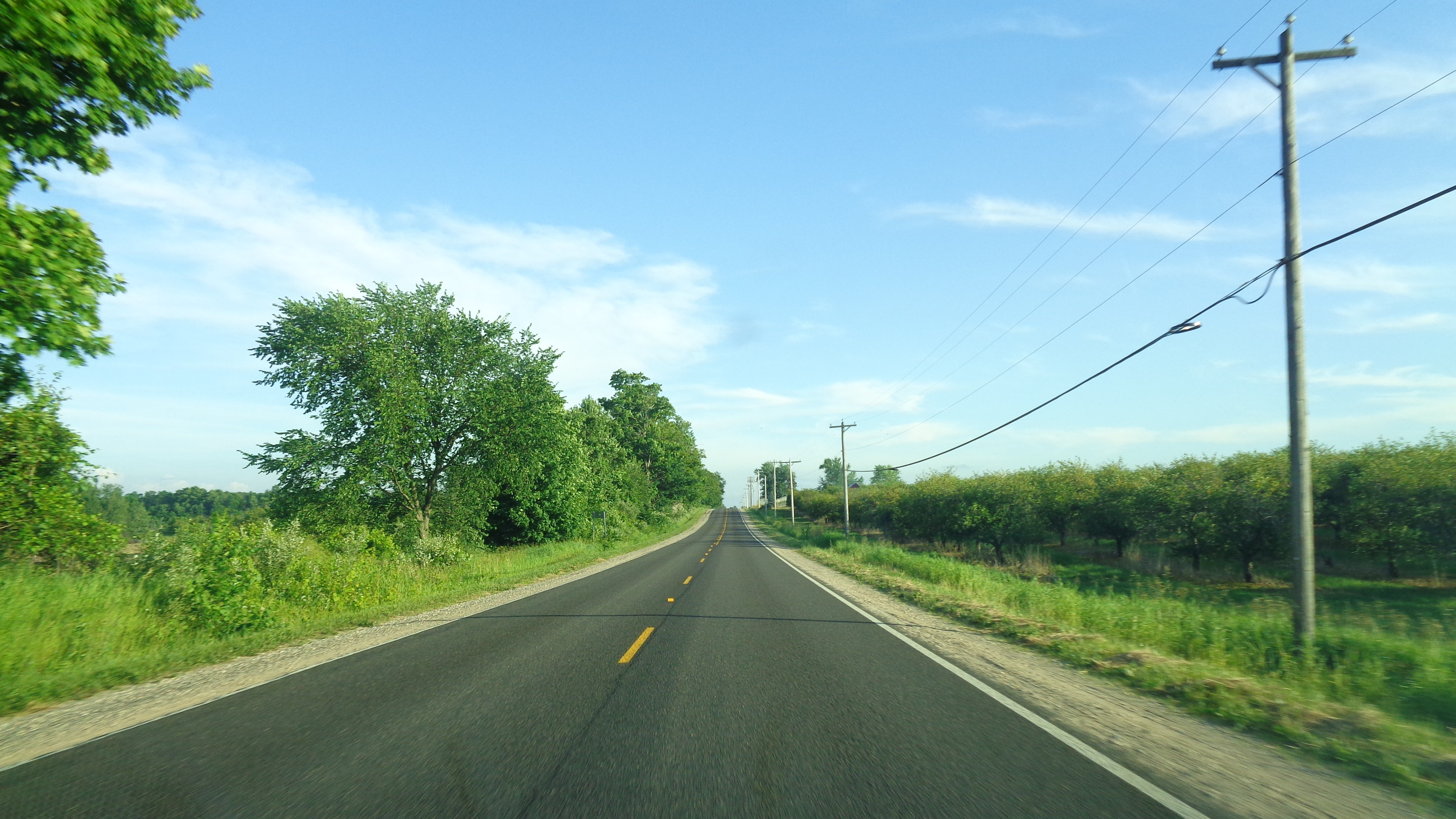 Depicted place: Whitewater Township